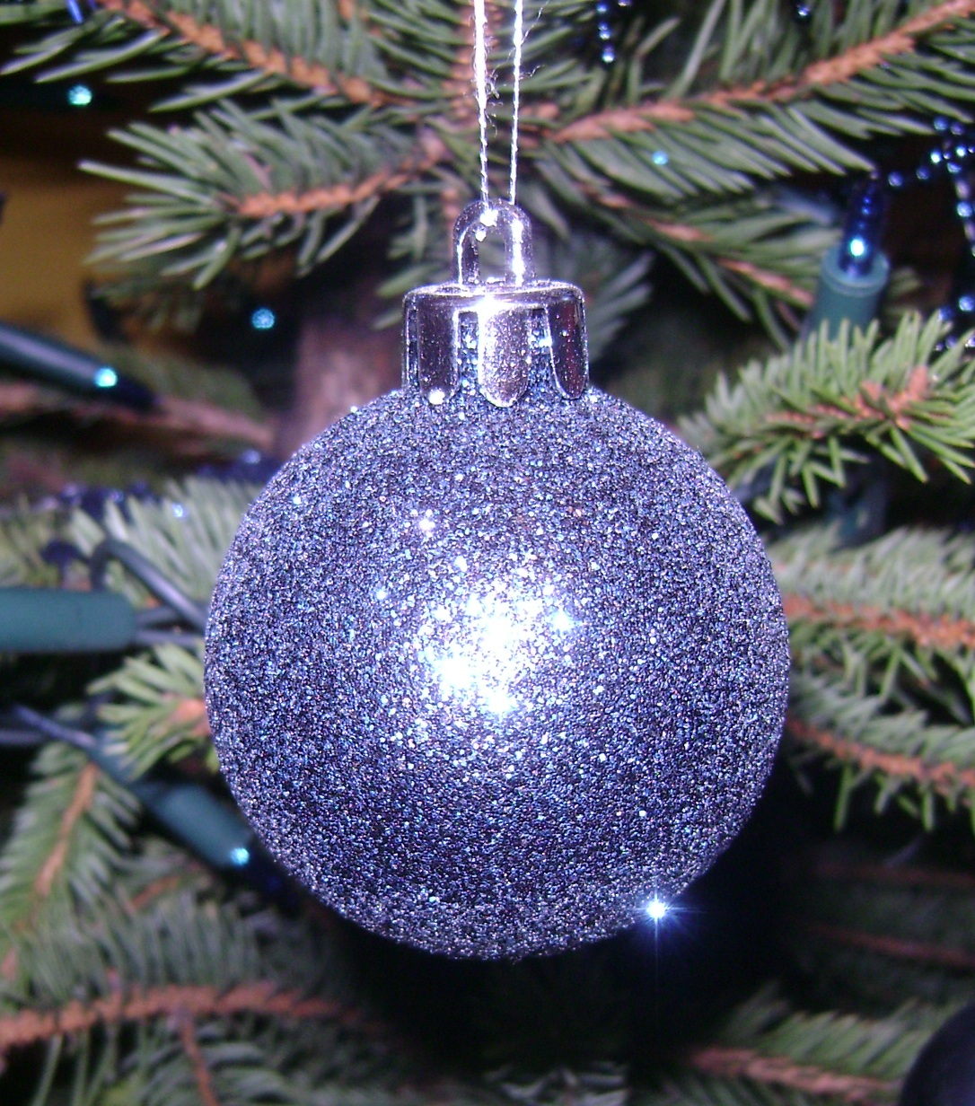 Christmas decorations